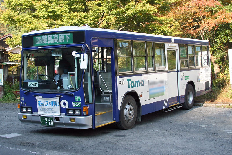 Tama Bus's route bus (Car No.TD19301 / Isuzu Cubic U-LV324L / IK Coach body) at Jinba-Kogen-Shita, Hachioji, Tokyo, Japan